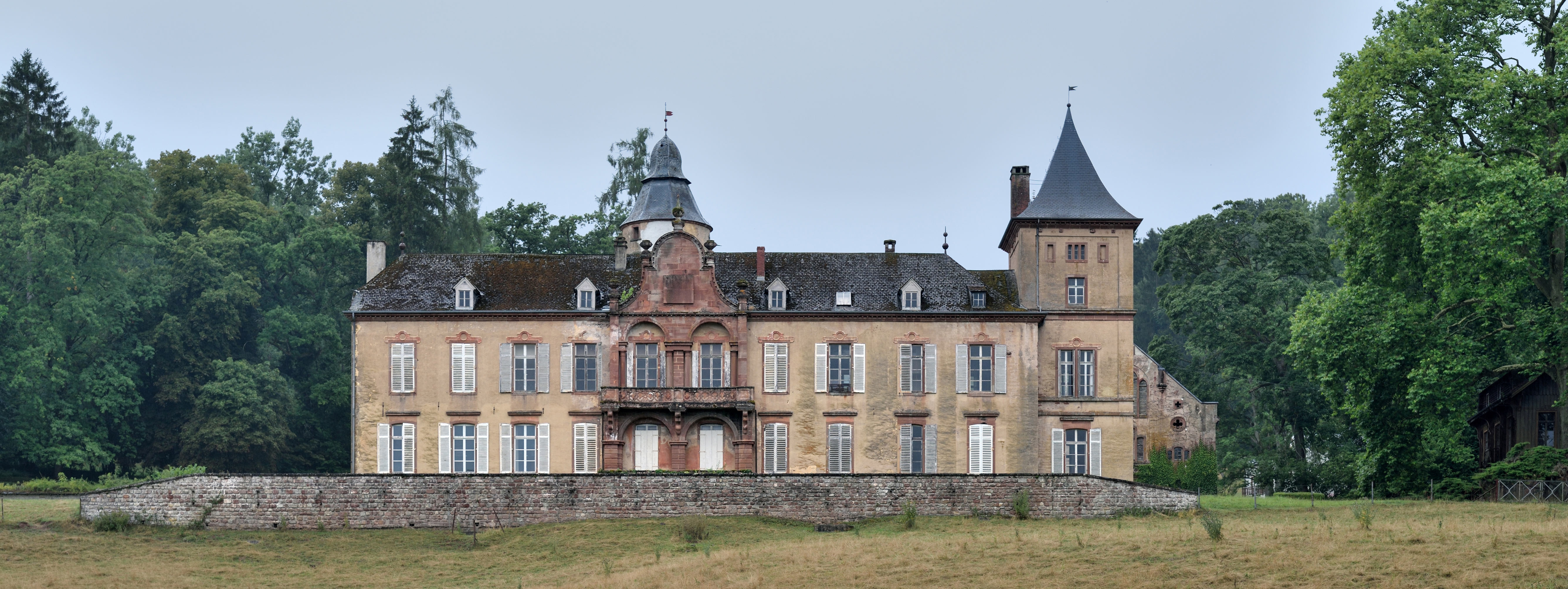 Birtrange Castle At Birtrange in the commune of Schieren, Luxembourg.